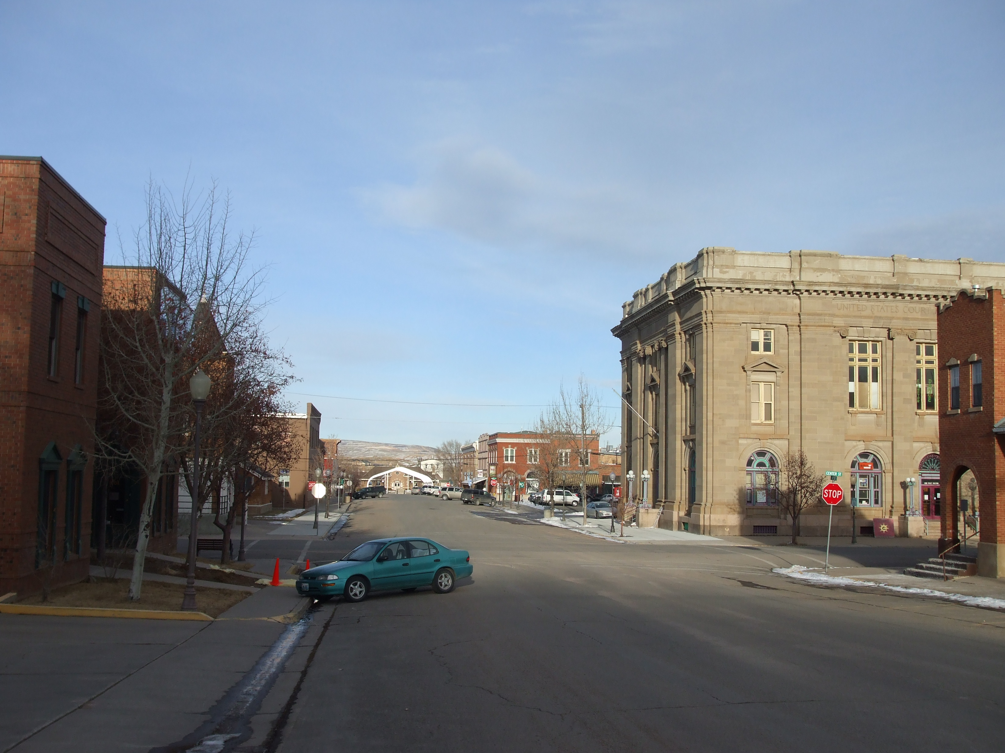 The Downtown Evanston Historic District in Evanston, Wyoming, United States, is listed as a National Historic District on the National Register of Historic Places.